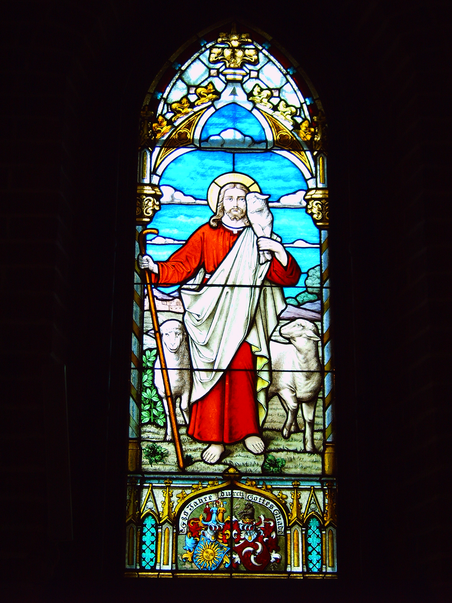 Poland, Mielno, church, stained glass - Dobry Pasterz